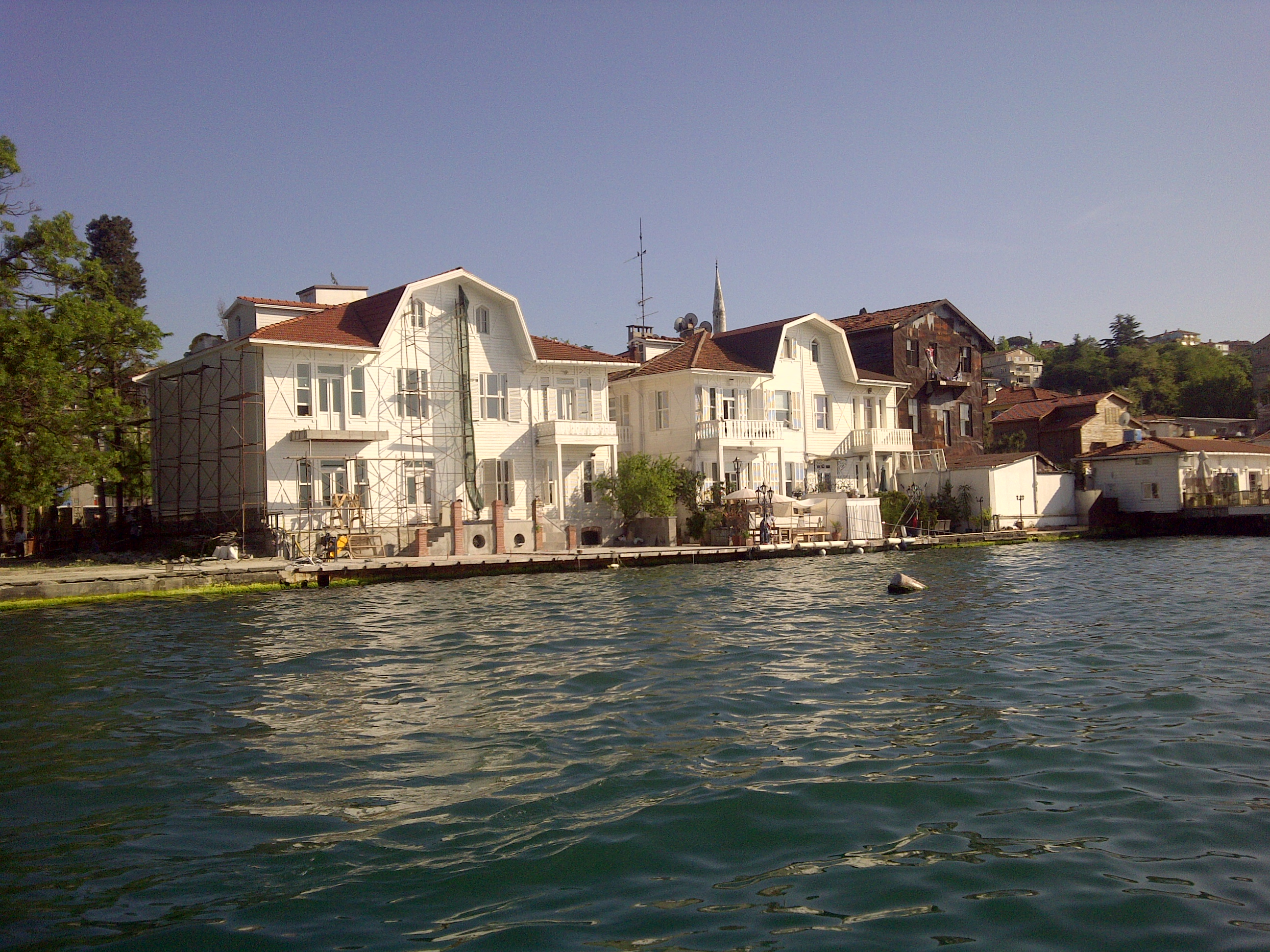 PAŞABAHCE ANDONAKI YALILARI